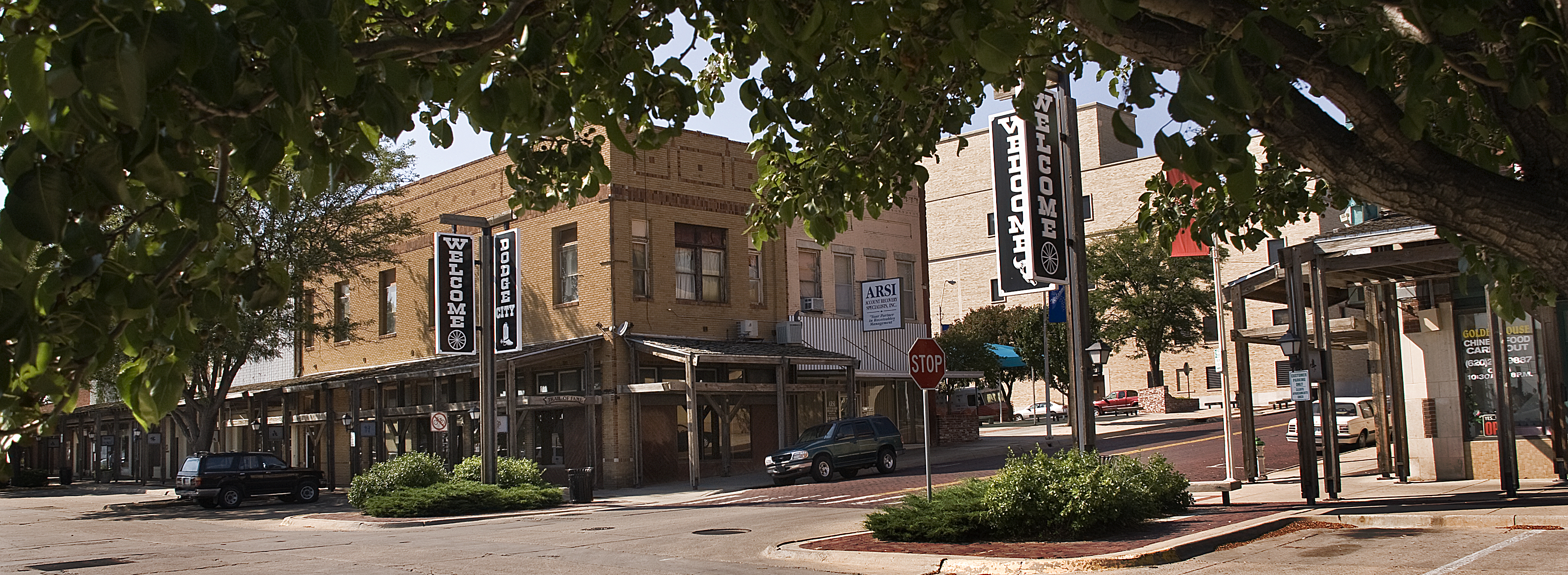 Front Street, Dodge City